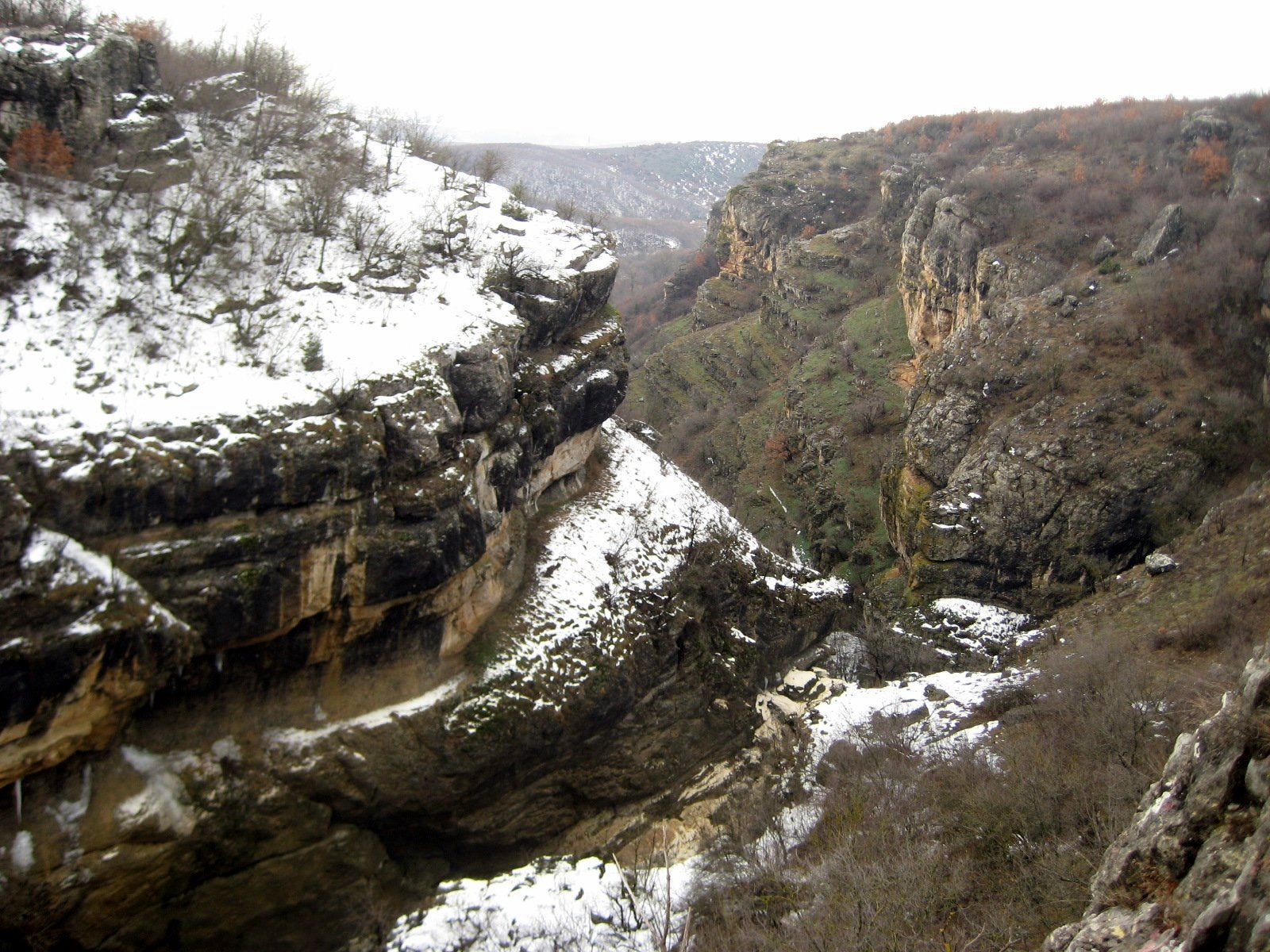 Photos from Arianit Dobroshi for Wikimedia Commons. Original Filename "arianit/Mirusha Waterfalls Winter Hike/image80.jpg"